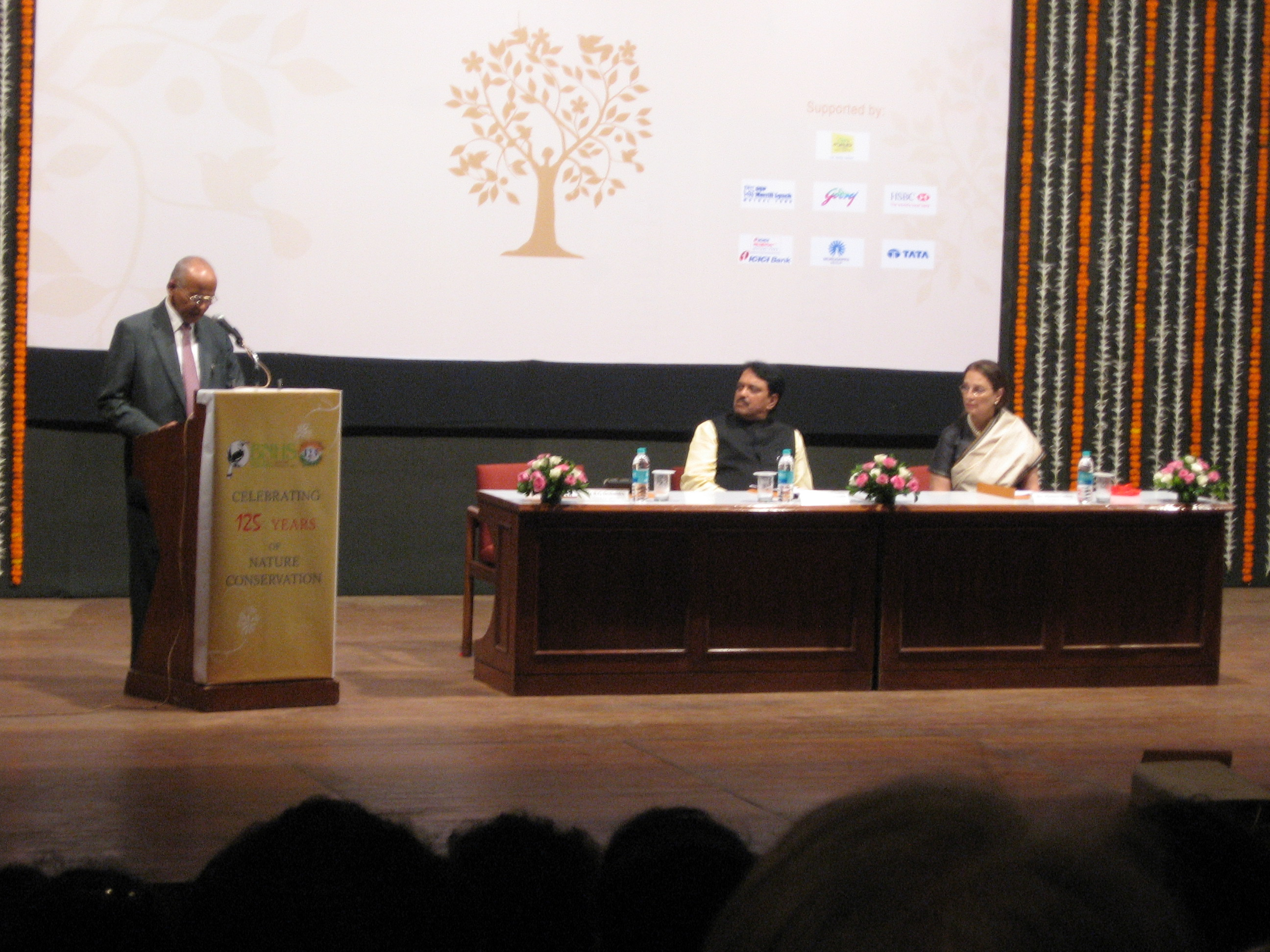 Chief Minister of Maharashtra (seated) at a function to mark the 125th anniversary of the Bombay Natural History Society on 15 September 2008.